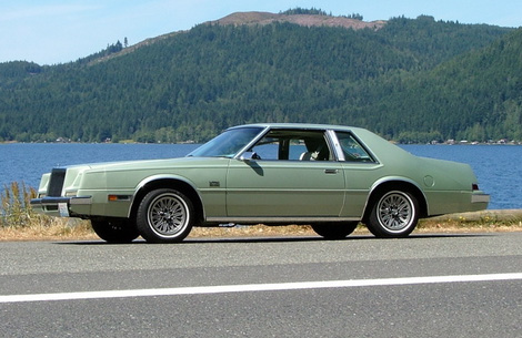 1981 Imperial Lake Crescent Washington